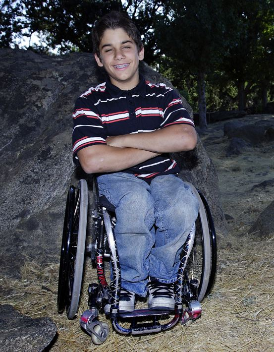 Acrobat Aaron Fotheringham